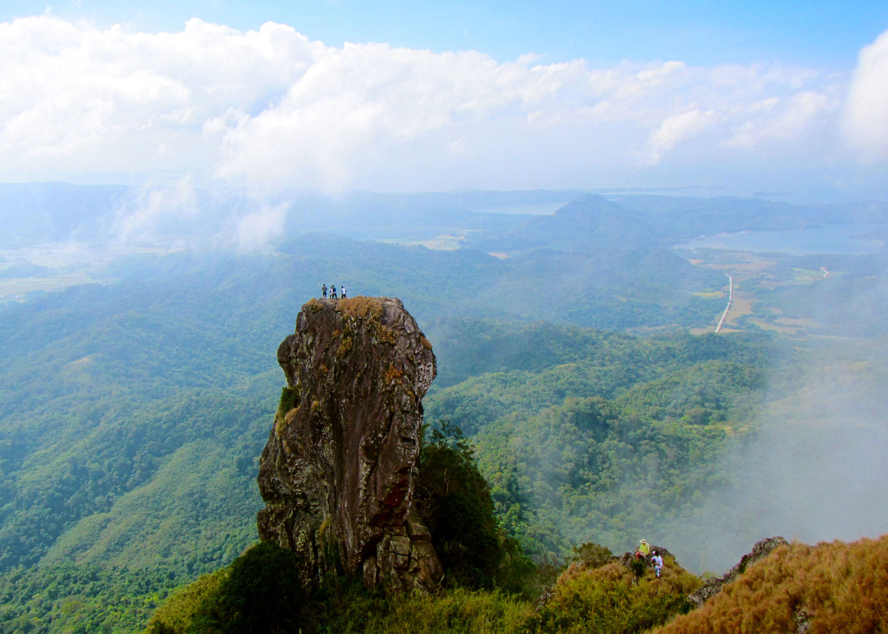 At the summit of Mt. Pico De Loro is a monolith. Also known as the Parrot's beak. It is a 60-meter natural rock formation often scaled by rock climbers. Shot by Schadow1 Expeditions during its mapping expedition to Pico De Loro of 2013.